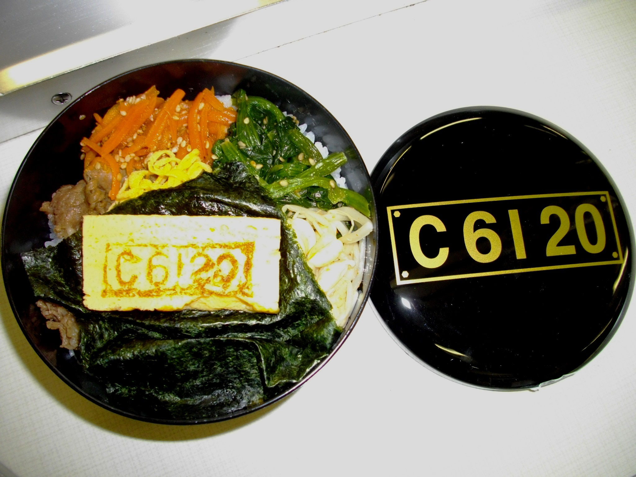 SL Rokuichi Monogatari (Ekiben)